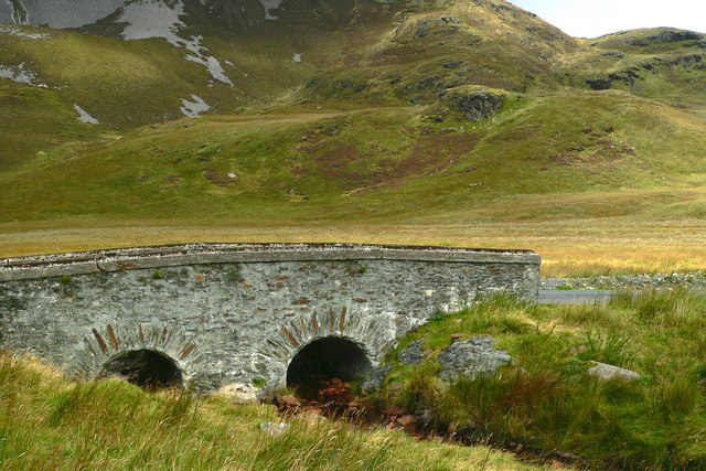 Road from Falcarragh SE to R251 - Bridge of Tears I only know this bridge as the Bridge of Tears. This is the spot where emmigrants continued onward across the bridge and up the hill to the right, as the start of a very long walk to get to the ships that would take them to America and/or Canada, and where their family members remaining in Ireland would part with them and return to their homes. The Gweedore area of Donegal was hard hit by the famine and home evictions.